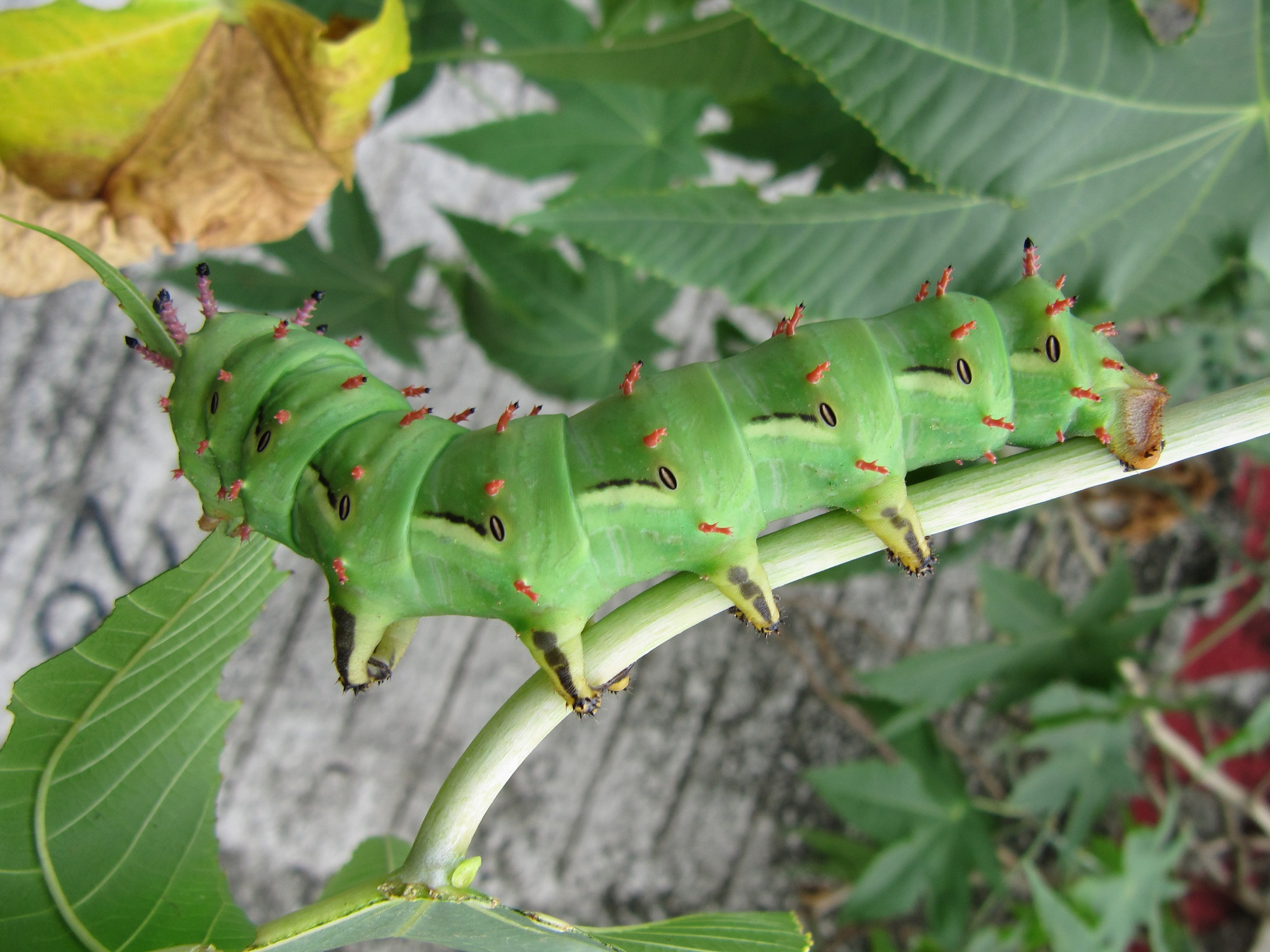 Caterpillar of Citheronia laocoon feasting on the leaves of a castor oil plant (Ricinus communis). Spotted in São Carlos, Brazil.